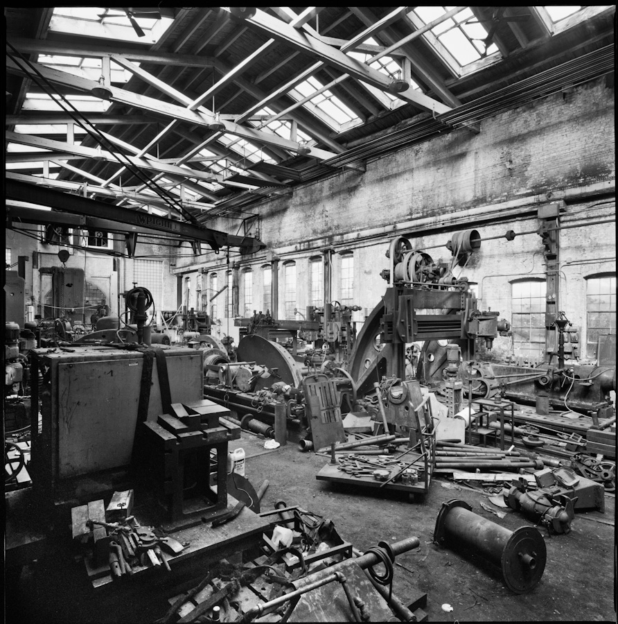 Interior of Watts, Campbell & Company. December 2010